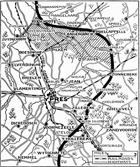 "Current History" (New York Times) map showing reported positions during the Second Battle of Ypres, as at about 30 April 1915. On 1 May the British withdrew to shorten their lines, with the final front line running through Hooge, Frenzenberg (not shown, but 1 3/4 mile sw of Zonnebeke) and west to Mouse Trap farm and Turco farms (not shown, but 1 mile sw of St Julien). The map is largely correct. By the end of the battle German forces had in fact captured St Julien and Zonnebeke. NYT caption : "The German rush across the Yser-Ypres Canal was checked at Lizerne and opposite Boesinghe. The shaded area on the map marks the scene of the battle. Within this area are Steenstraate, Het Sast, Pilkem, St. Julien, and Langemarck, all of which the Germans claimed to have captured."